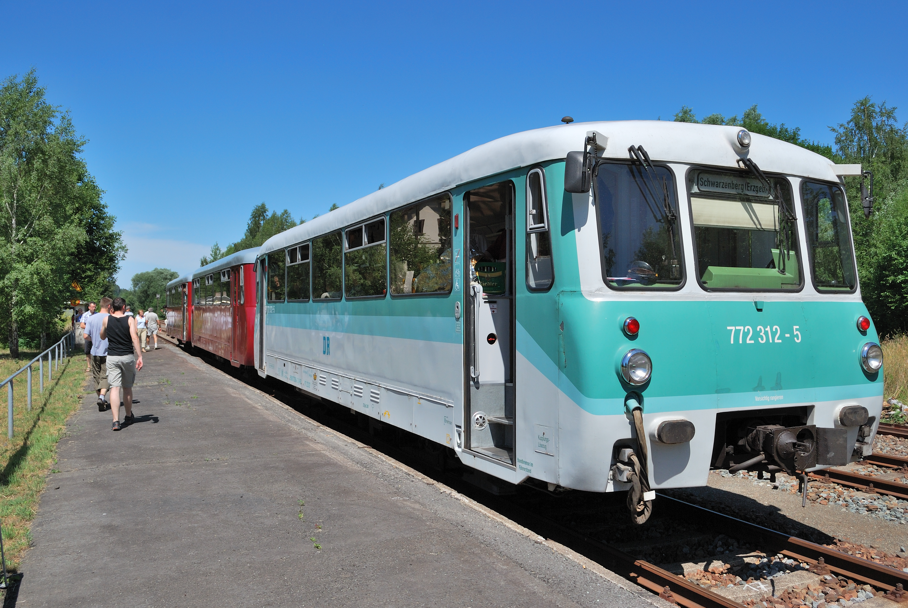 Historical train in Ore Mountains, Saxony in Germany